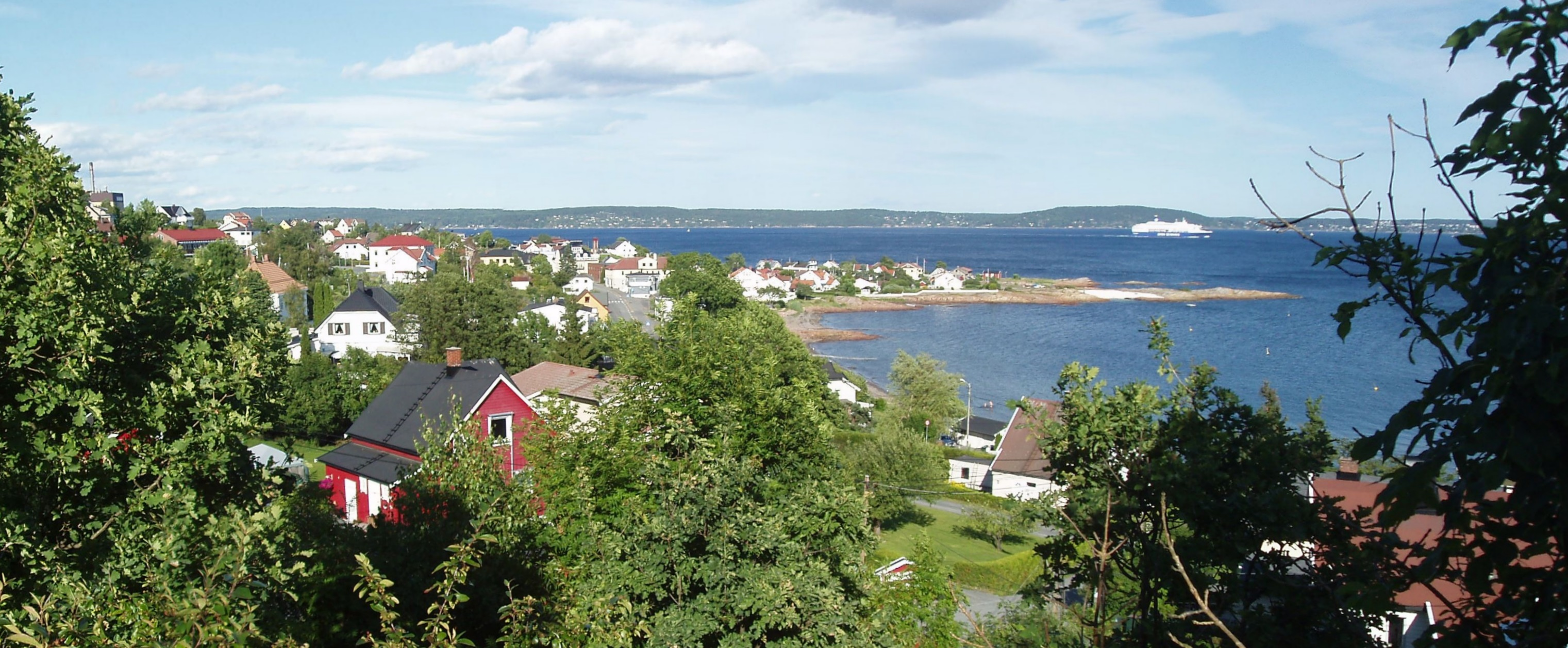 The village of Tofte in Hurum, South Norway